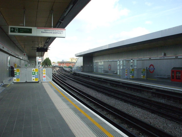 Wood Lane station II, W12 The brand new Wood Lane station that opened in early October 2008 looking towards Latimer Road station.